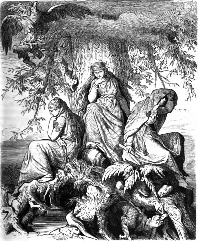 Captioned as "Die Nornen Urd, Werdanda, Skuld, unter der Welteiche Yggdrasil". The Nornic trio of Urðr, Verðandi, and Skuld beneath the world tree (called an oak in the caption) Yggdrasil. At the top of the tree is an eagle (likely Veðrfölnir), on the trunk of the tree is a squirrel (likely Ratatoskr), and at the roots of the tree gnaws what appears to be a small dragon (likely Níðhöggr). At the bottom left of the image is the well Urðarbrunnr.